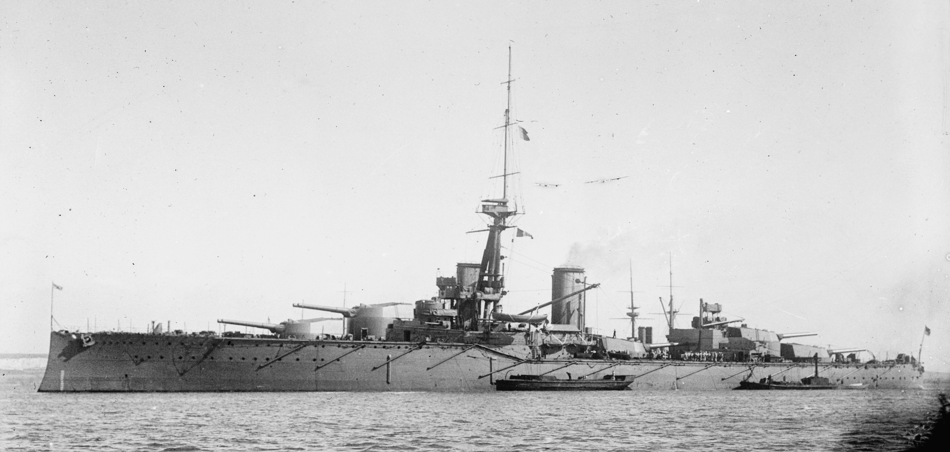 HMS Monarch